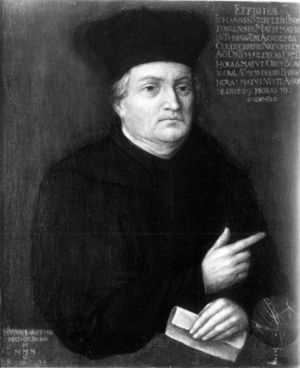 Depicted person: Johannes Stöffler - (1452–1531)